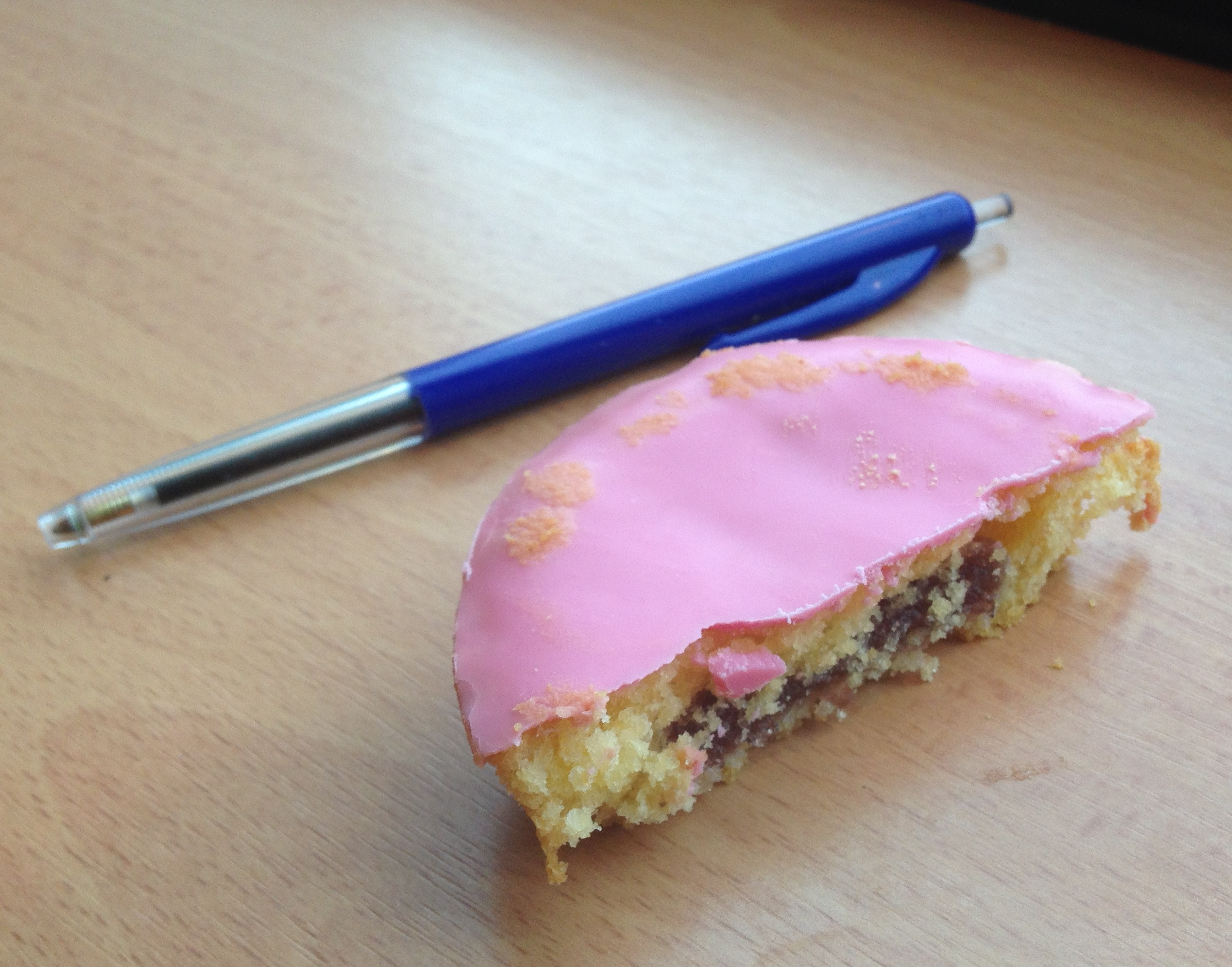 Pink cake with jam filling and size reference